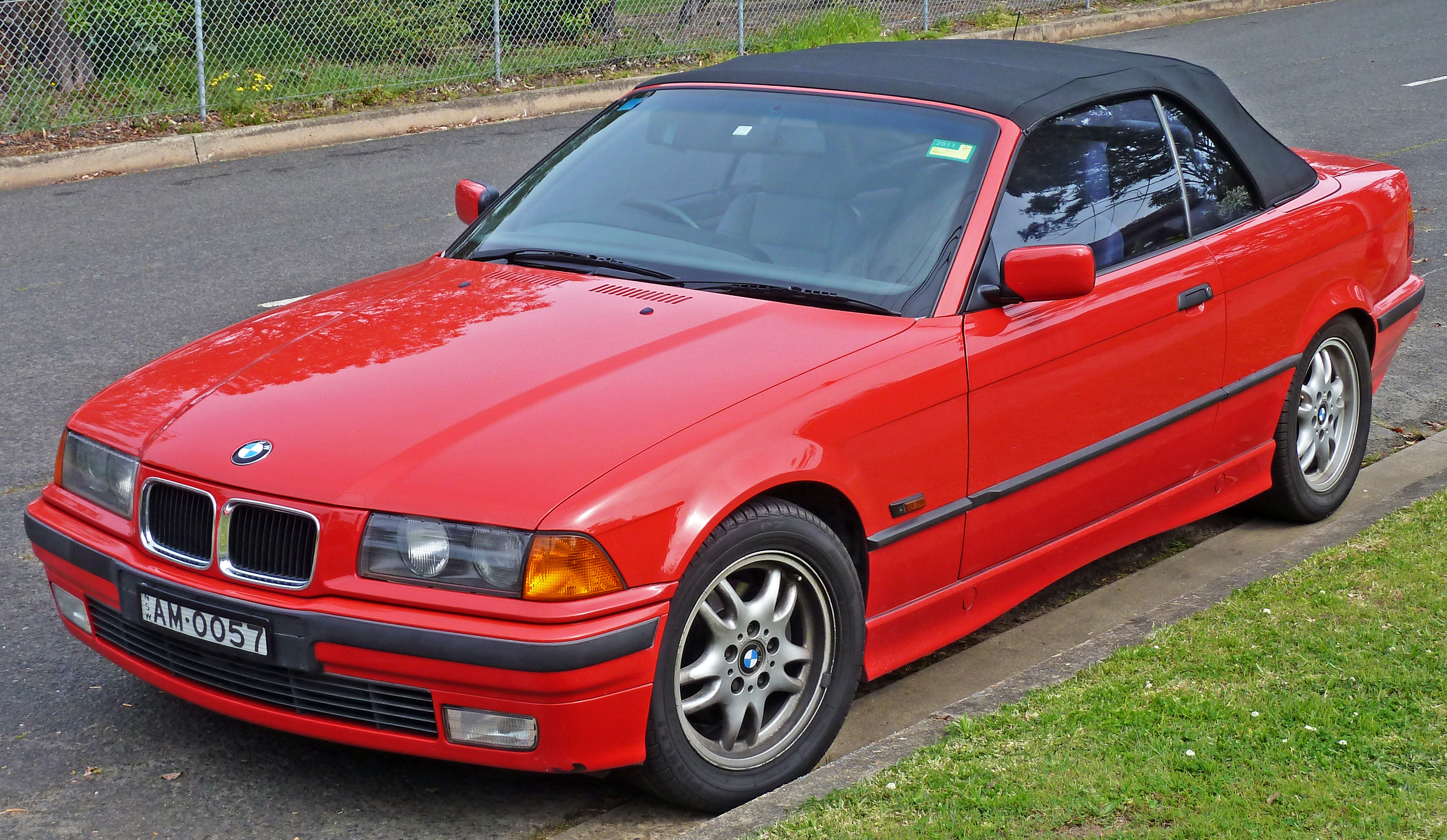 1995–1996 BMW 328i (E36) convertible. Photographed in Taren Point, New South Wales, Australia.